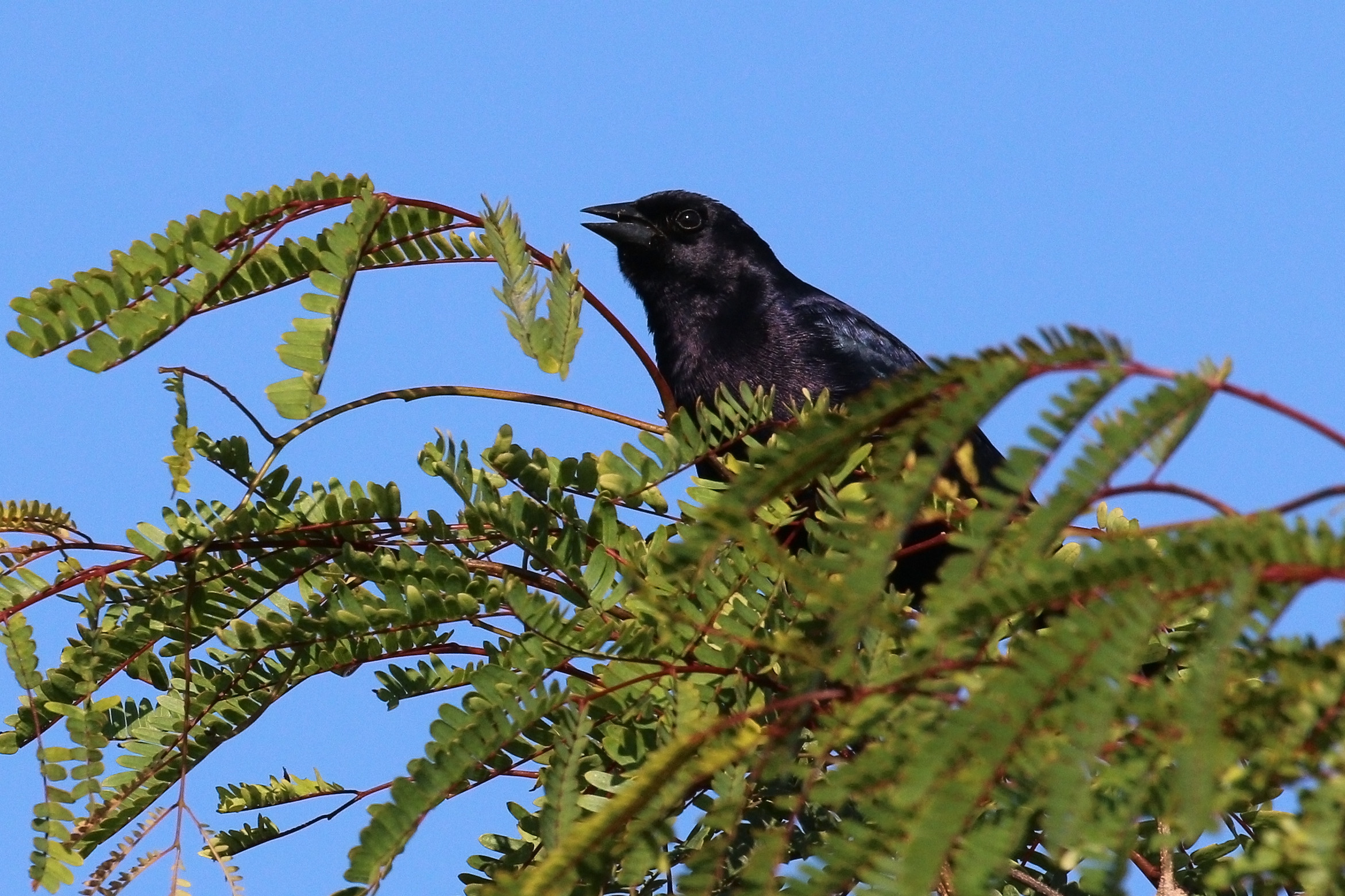 Shiny cowbird (Molothrus bonariensis) male, Cuba